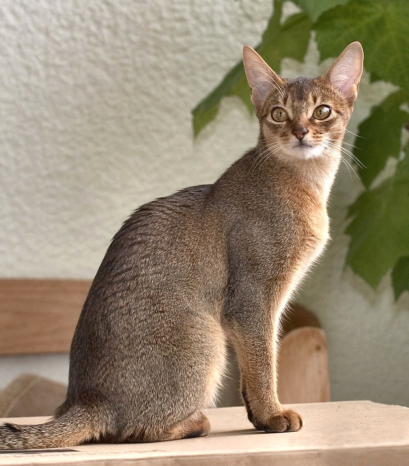 6 month old Abyssinian (Gatobelo's Kamée, 2004). Slightly cropped, brightened and clarified from original, linked below.